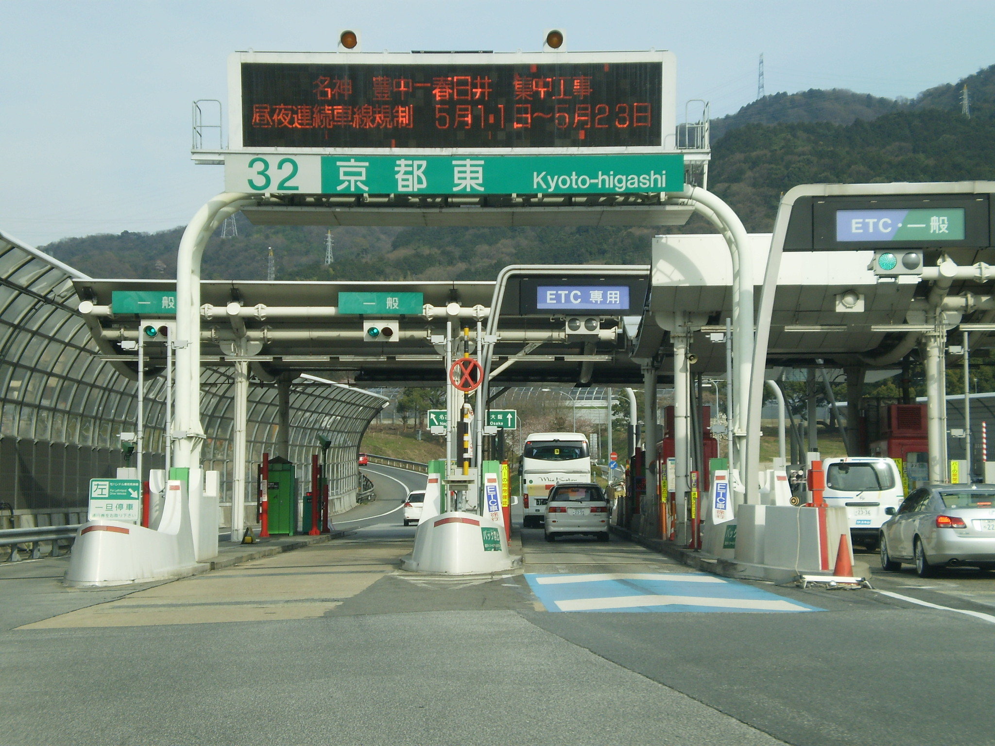 Kyoto-higashi interchange of Meishin Expressway. I took this image at Koyamakaminashimori-cho yamashina-ku Kyoto City Kyoto Pref., Japan.